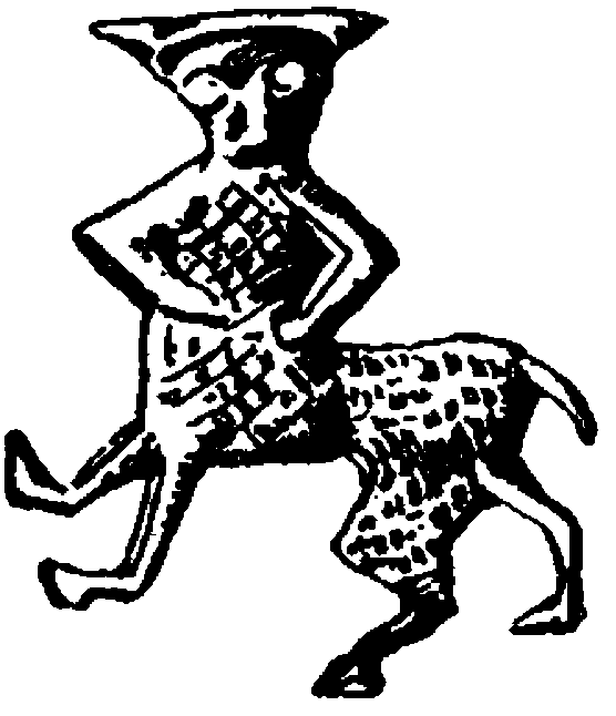 The image on the seal of prince Semion Luty of Holszany (1433), as presented in the book Heraldyka polska wieków średnich (1889) by Franciszek Piekosiński.